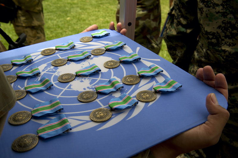 Celebrating International UN Peacekeepers Day. During the ceremony 58 military staff officers were awarded the UN Peacekeeping Medal.